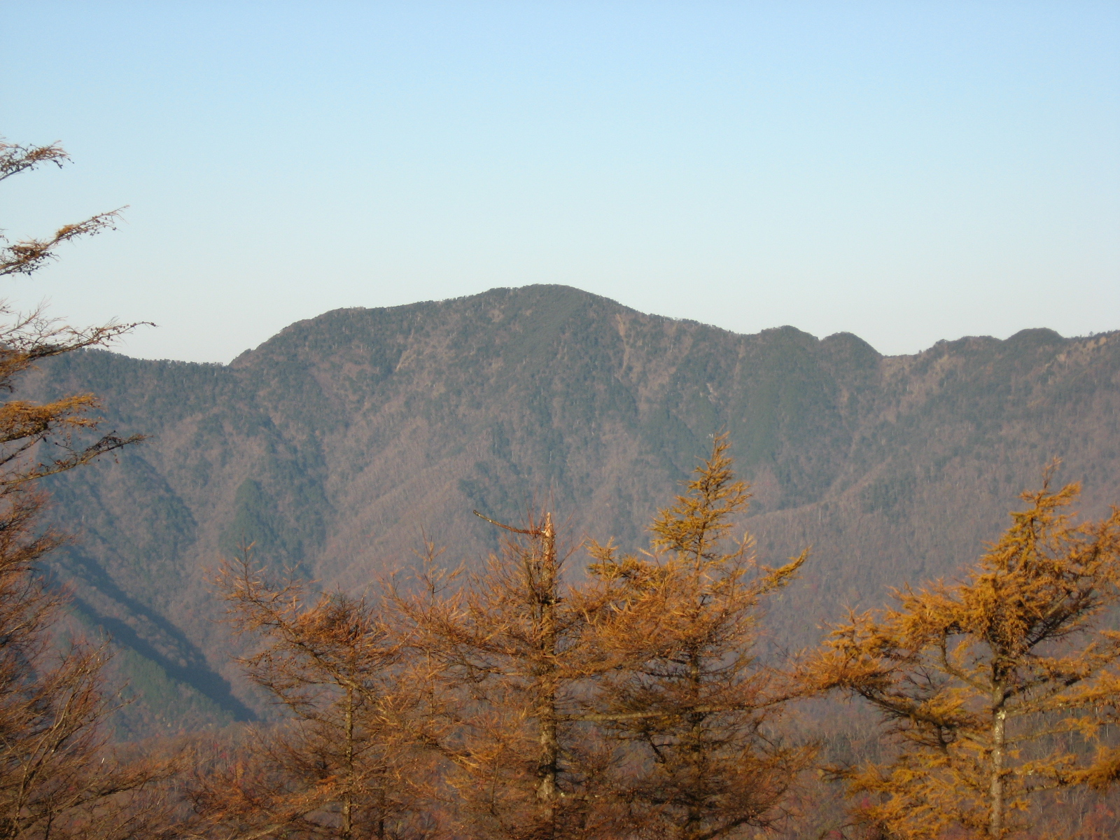 Mt. Hiryu (飛竜山 Hiryu-san) as seen from Mt.Nanatsuishi, Chichibu Mountains, Honshu, Japan. The lower trees are Larix kaempferi.